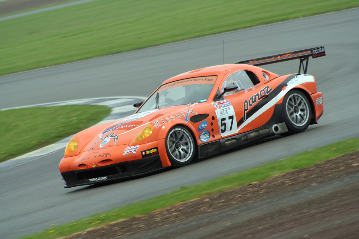 Panoz GT2 Taken at the FIA GT Championship 7th May 2006 Silverstone